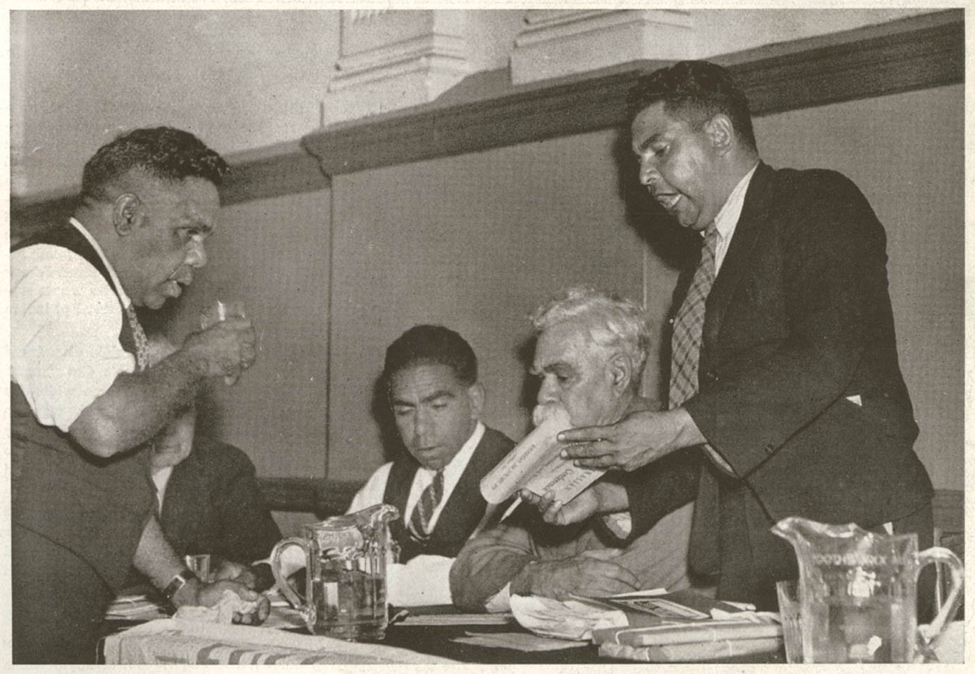 President Patten (right) reads resolution, "We, representing the ABORIGINES OF AUSTRALIA ... on the 150th Anniversary of the whitemen's seizure of our contry, HEREBY MAKE PROTEST against the callous treatment of our people ... AND WE APPEAL to the Australian Nation of to-day ... for FULL CITIZEN STATUS and EQUALITY WITHIN THE COMMUNITY". This image is part of the collections of the State Library of NSW and has been used with permission. The State Library’s Flickr Commons channel can be accessed via the following link